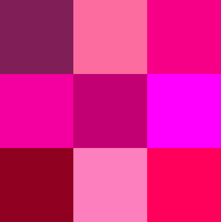 Shades of magenta